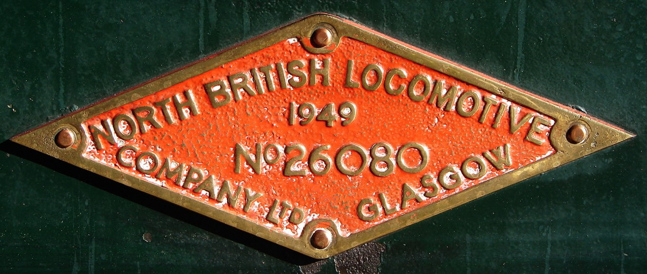 North British Builder's plate on Class 19D no. 3360